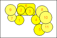 Suzuki's Drums Distribution, maded using Tama's Description